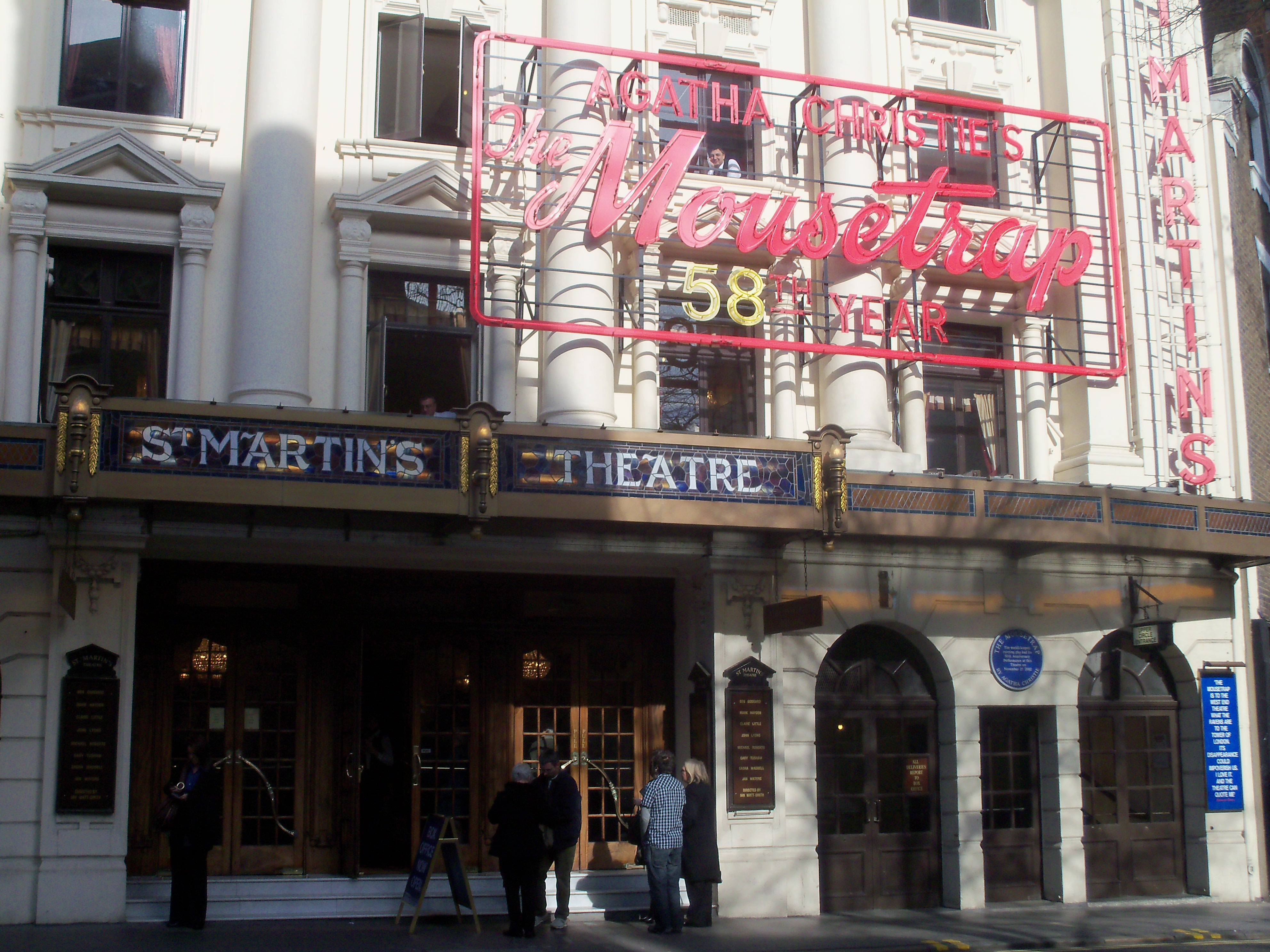 St Martin's Theatre, Covent Garden, London